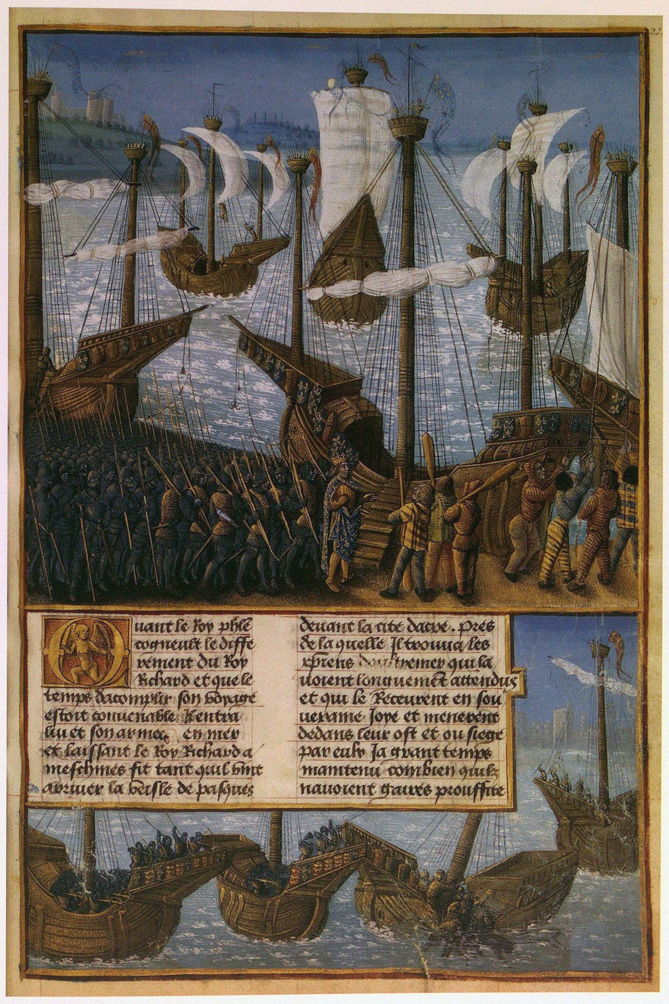 King Philip II of France with his army departing for the Third Crusade; below: Sinking of an enemy ship. Miniature in the „Passages d’outremer“ of Sébastien Mamerot in the manuscript Paris, Bibliothèque nationale de France, Fr. 5594, fol. 211r.